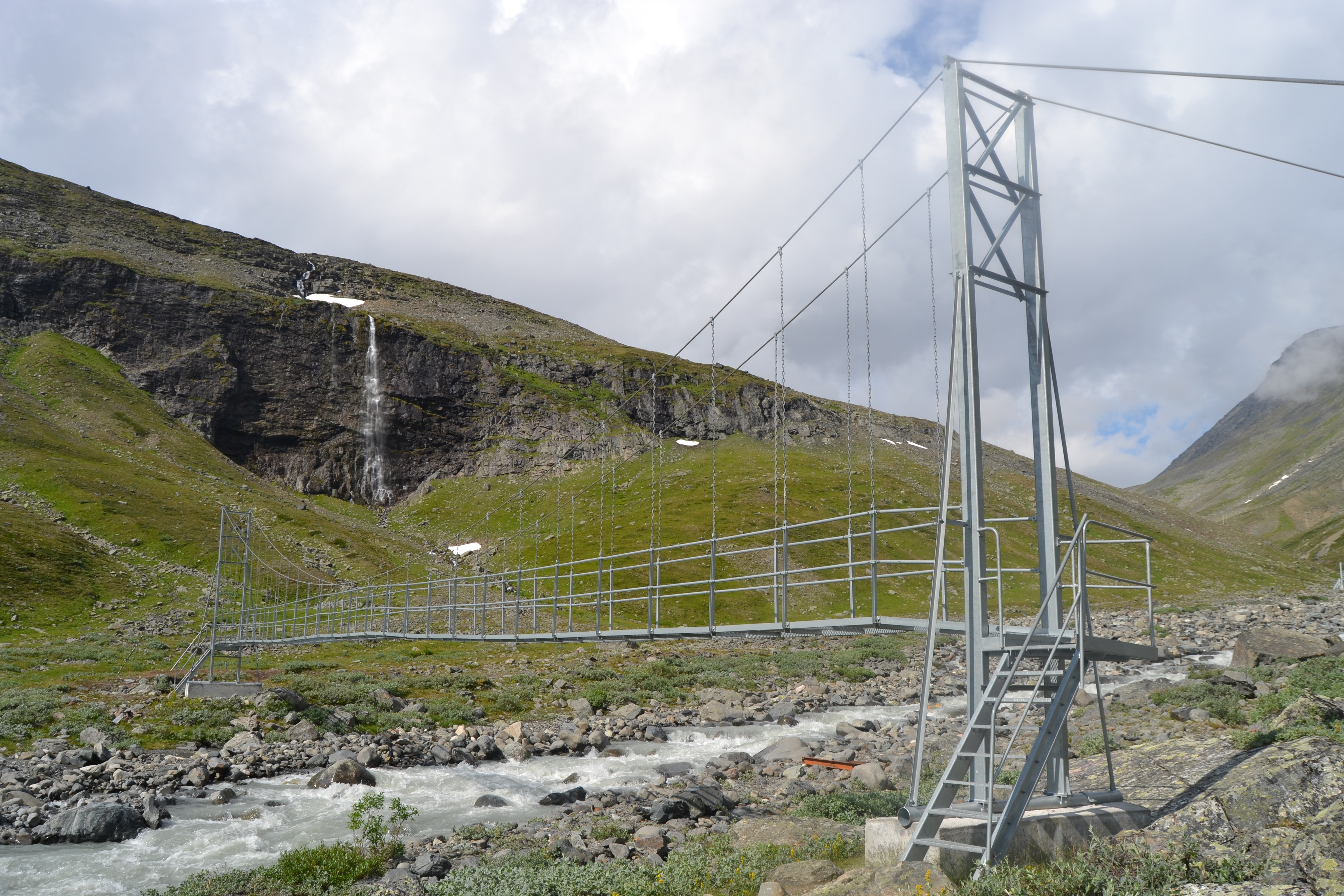 Bridge over Tarfalajåkka in Kiruna, Sweden